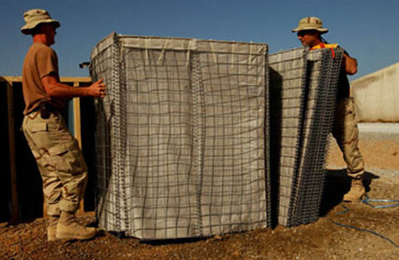 US Military picture of troops filling an HESCO barrier, from